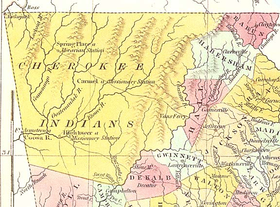 Map of Georgia (detail showing Cherokee Indian territory)